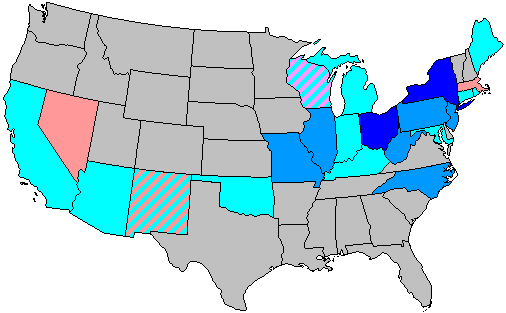 Summary of party change of U.S. house seats in the 1910 House election. Stripes indicate a tie between the gains of two or more parties. Legend: 6+ Democratic seat pickup 3-5 Democratic seat pickup 1-2 Democratic seat pickup 1-2 Republican seat pickup 3-5 Republican seat pickup 6+ Republican seat pickup 1-2 Progressive seat pickup 1-2 Farmer-Labor seat pickup 1-2 Socialist seat pickup Note: years ending in 2 may have inconsistent results due to redistricting.